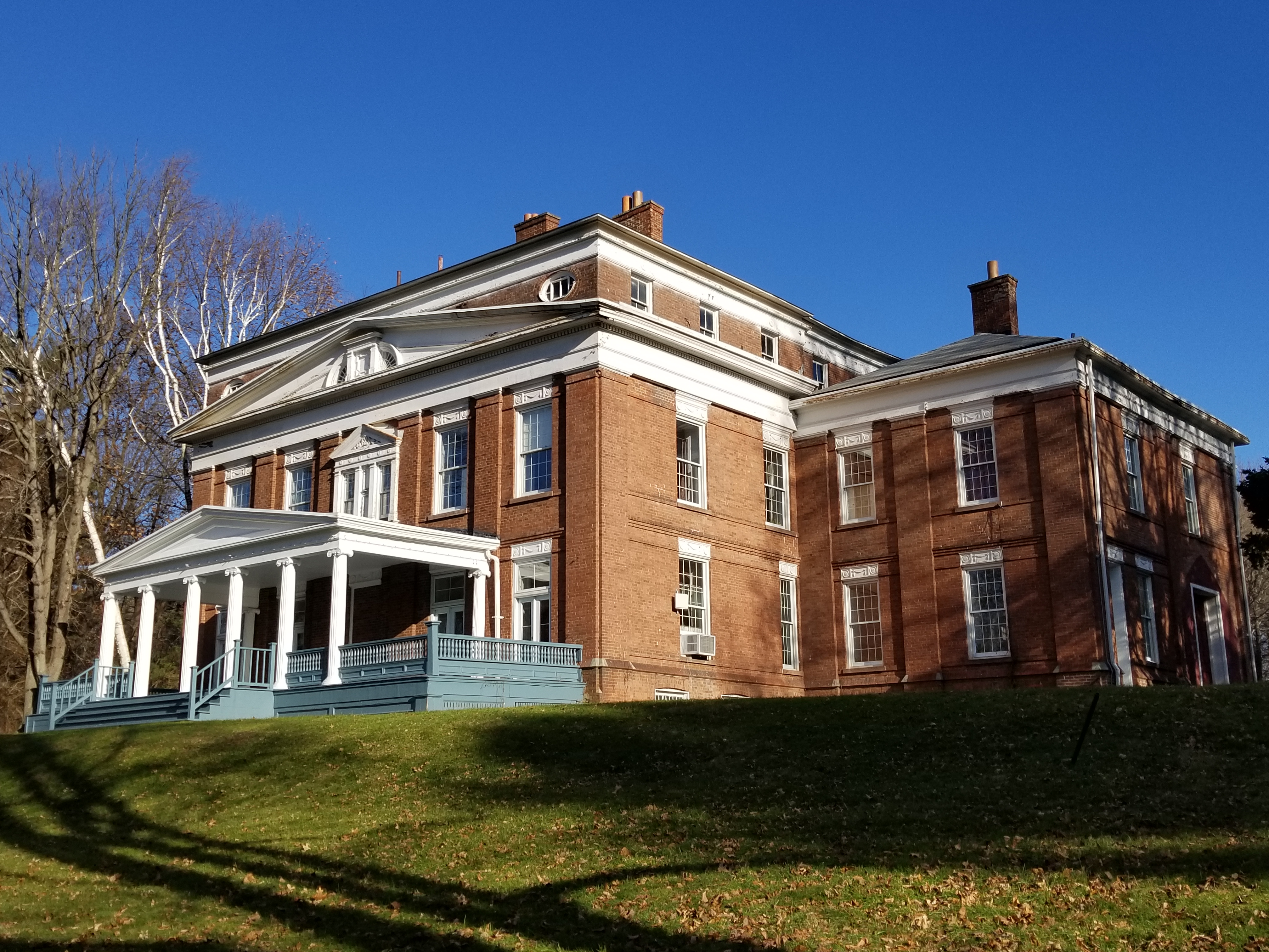 South facade of the Nevis Mansion